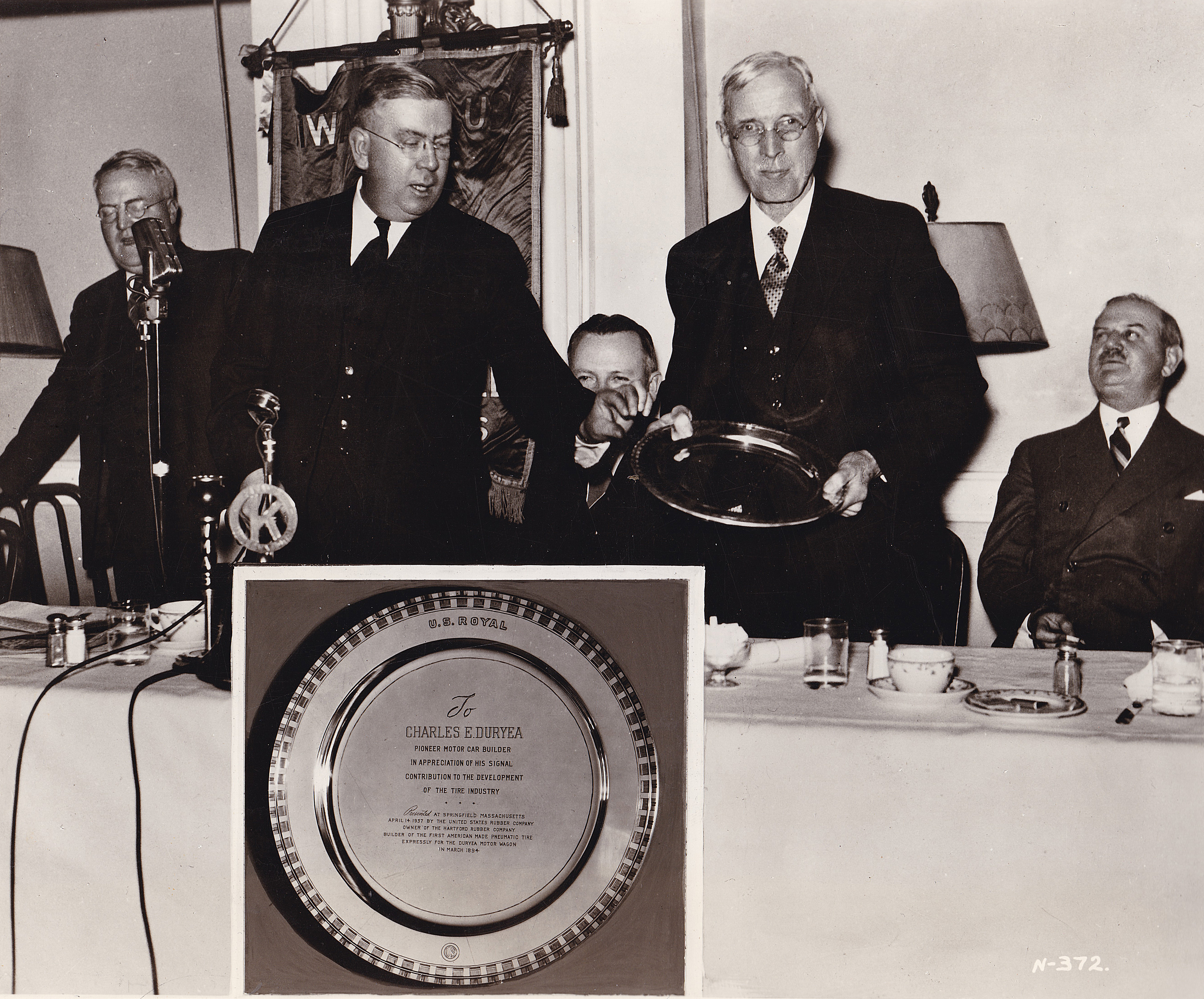 A press photo showing Mayor William P. Yoerg of Holyoke (center-left), a longtime garage owner and tire salesman, presenting an engraved award plate to Charles Duryea, engineer of the first-ever working American gasoline-powered car, for his role in starting the American tire industry. Duryea's 1894 prototypes made use of pneumatic tires produced by the Hartford Tire Company. The ceremony took place in Springfield, Massachusetts on April 14, 1937. A typewritten and date-stamped caption on the back reads- From,Springfield–Duryea Anniversary Committee,Springfield, Mass.AUTO INDUSTRY HONORS DURYEAMayor William P. Yoerg of Holyoke, Mass. presents Charles E. Duryea with the United States Rubber Company Trophy at the forty-fifth anniversary luncheon in Springfield, Mass. The luncheon was a salute to Springfield as the birthplace of the motor industry and honored Mr. Duryea as the inventor of the first successful automobile in America, and as the first automobile manufacturer to use pneumatic automobile tires (1894). The tires were made by the old Hartford Rubber Works, now a part of the United States Rubber Company. L. to r. – J. Frank Tucker, Chairman, Springfield Public Affairs Committee; Mayor Yoerg; Mr. Duryea; and (seated extreme right) Alfred P. Reeves, vice president, Automobile Manufacturers Association of America.Apr 29 1937